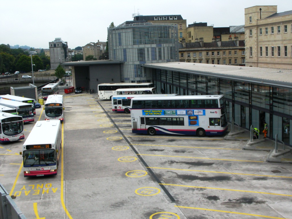 First Somerset and Avon buses at Bath Bus Station, England. The buses leaving on city route 14 is 42910 (WX05RVU - A Dennis Dart SLF with Alexander Dennis Pointer bodywork), behind which on route X39 to Bristol is 66729 (WX54XCO - a Volvo B7RLE with Wrightbus bodywork).